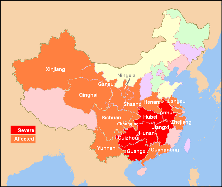 English version of Image:China snow.png